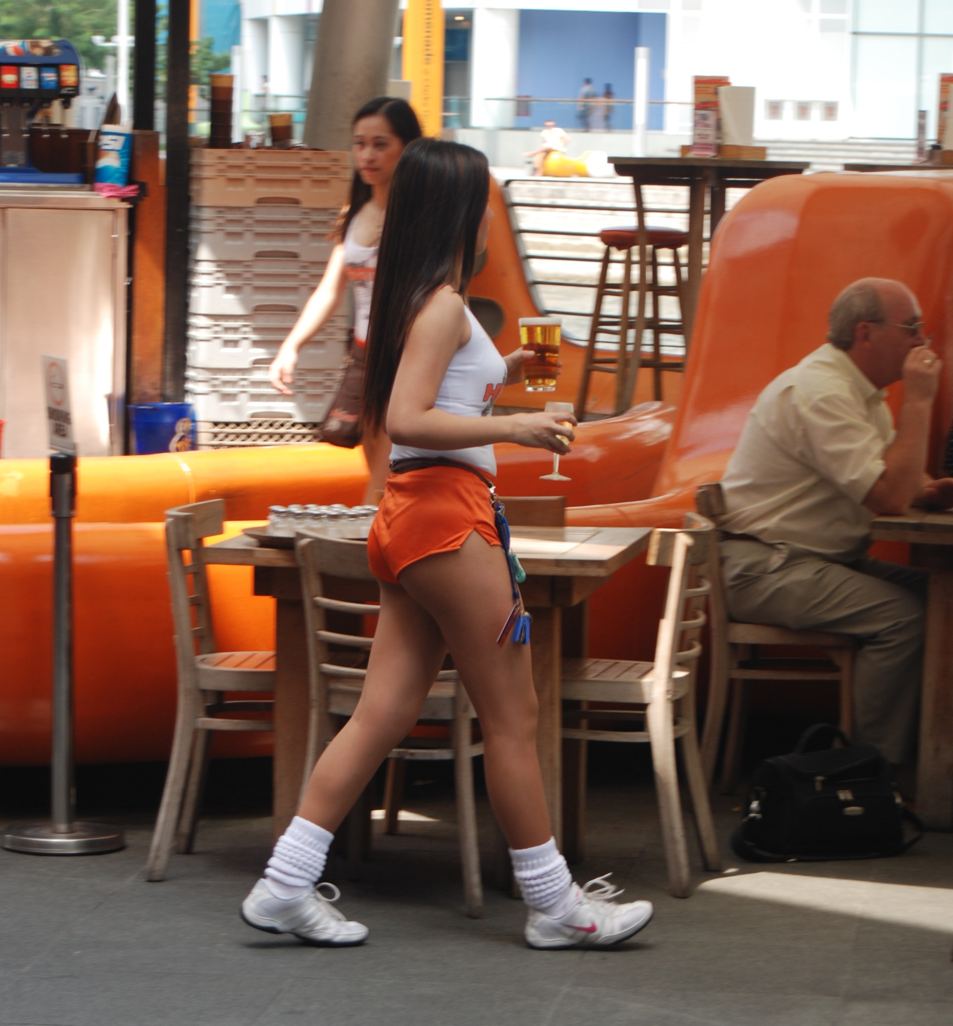 A Hooters Girl at a Hooters restaurant in Singapore.